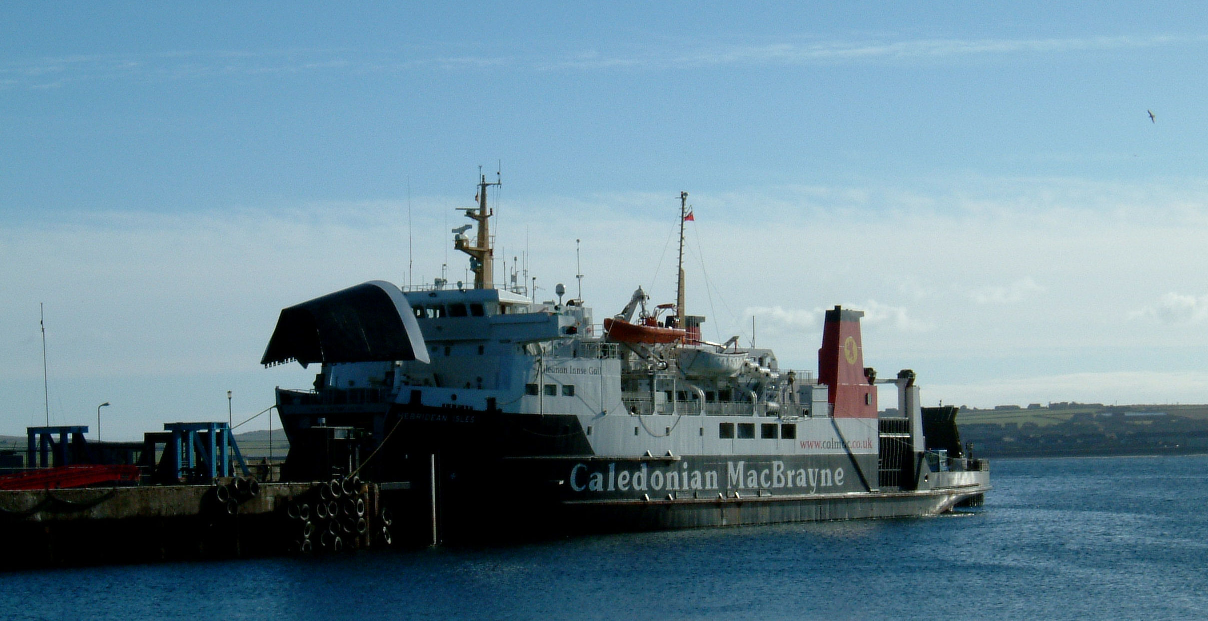 Caledonian MacBrayne ferry, MV Hebridean Isles being loaded at Scrabster. IMO Number: 8404812 MMSI Number: 232000420 Callsign: GFMJ Length: 86.0m Beam: 16.0m